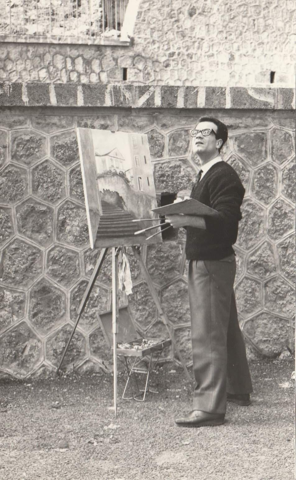 Osvaldo mentre dipinge